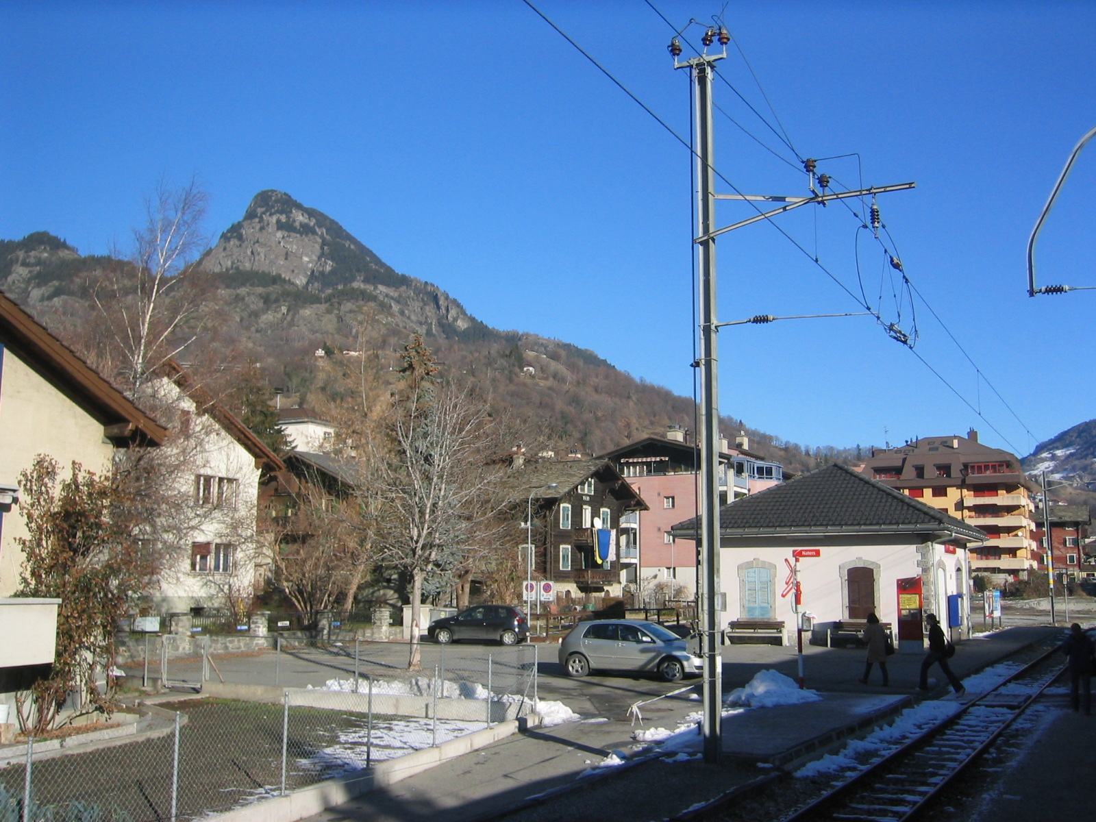 Naters, Valais, Switzerland: The station of Matterhorn-Gotthard-Bahn, with the Riederhorn in the background. The line through this station was closed in December 2007, with MGB trains using a new route through Brig that avoids reversal and level crossings. The line is now a cycle and pedestrian route, and the station has become a cafe.